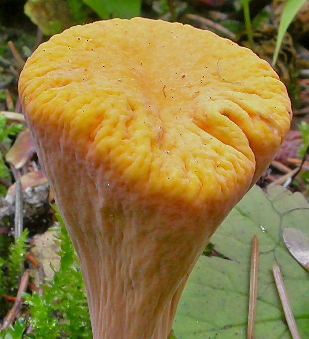 Clavariadelphus truncatus from Sumallo Grove, Manning Park, British Columbia, Canada